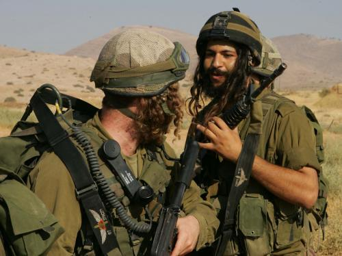 IDF soldiers of the religious battalion of Nahal training for infantry service